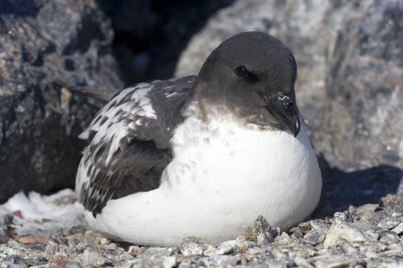 Cape Petrel